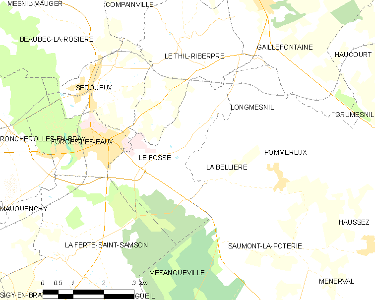 Map of French municipality Le Fossé